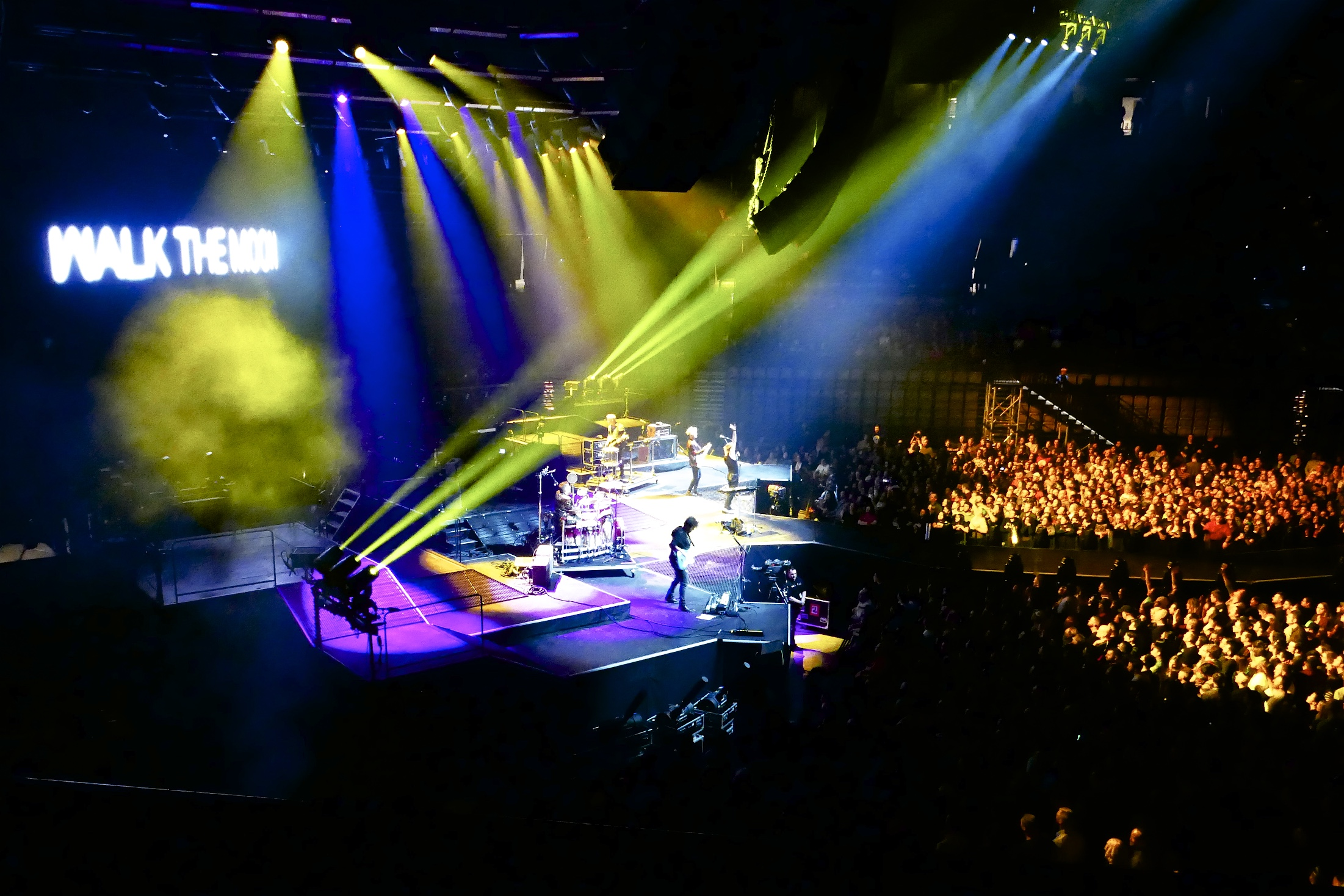 Walk the Moon performing at the Mandalay Bay Events Center in Las, Vegas, Nevada (opening for Muse), March 2019.